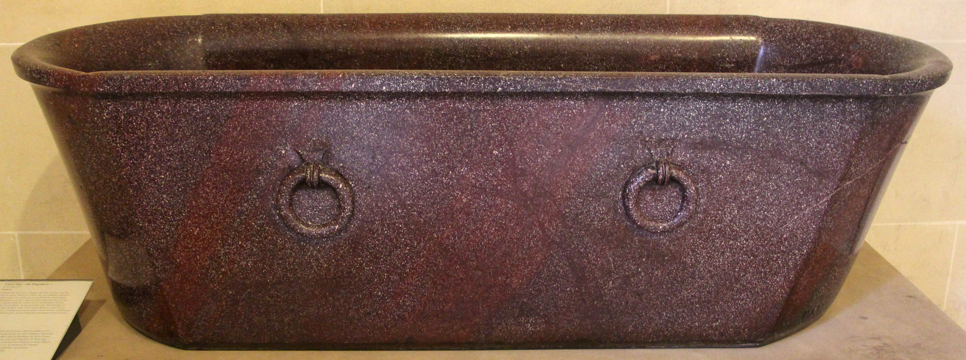 Roman antiquities in the Louvre